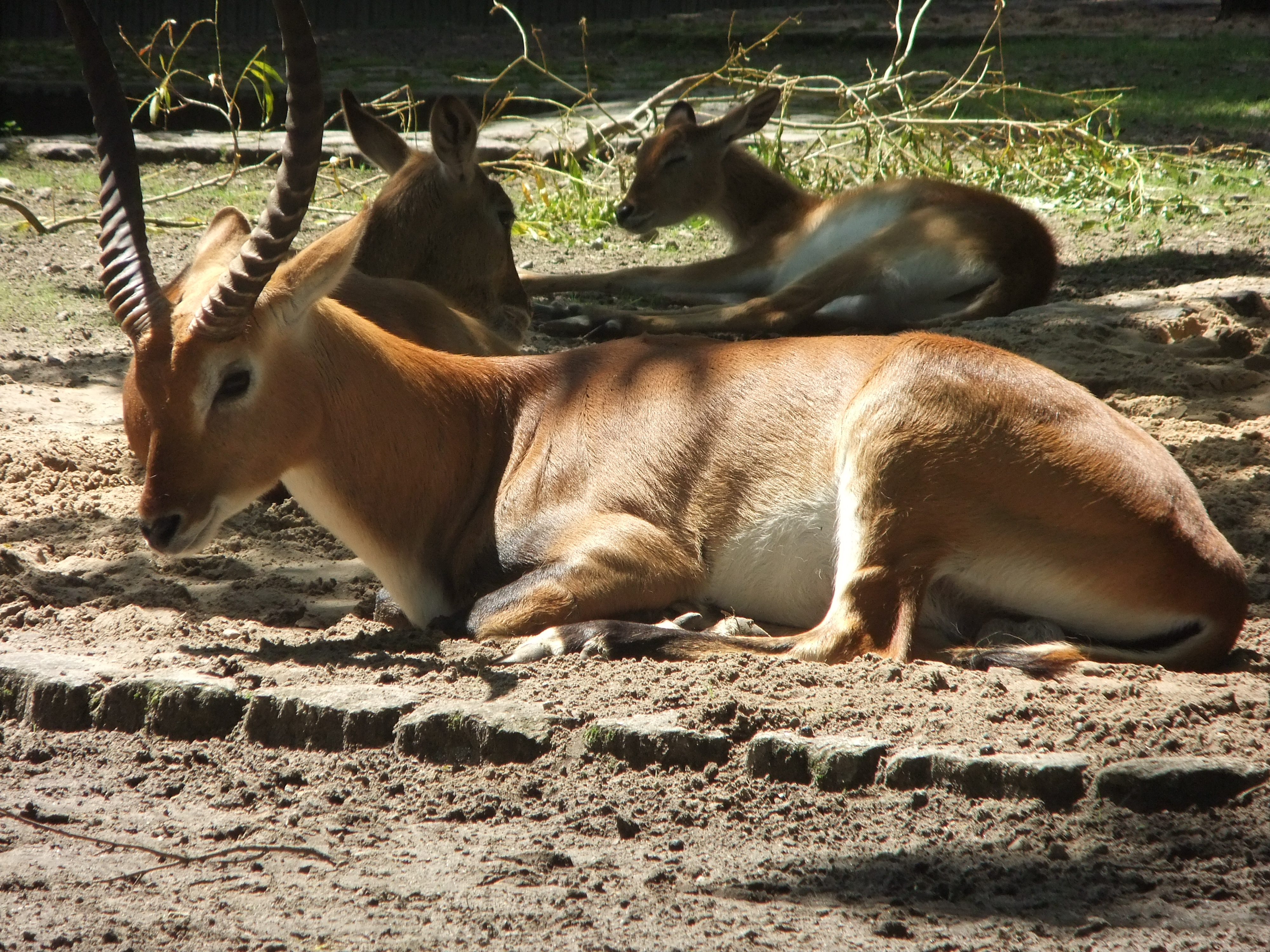 Lechwe antelopes in Berlin zoological park